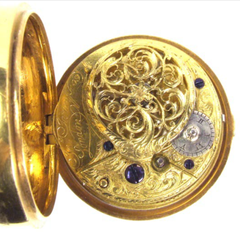 James Ivory pocket watch #109